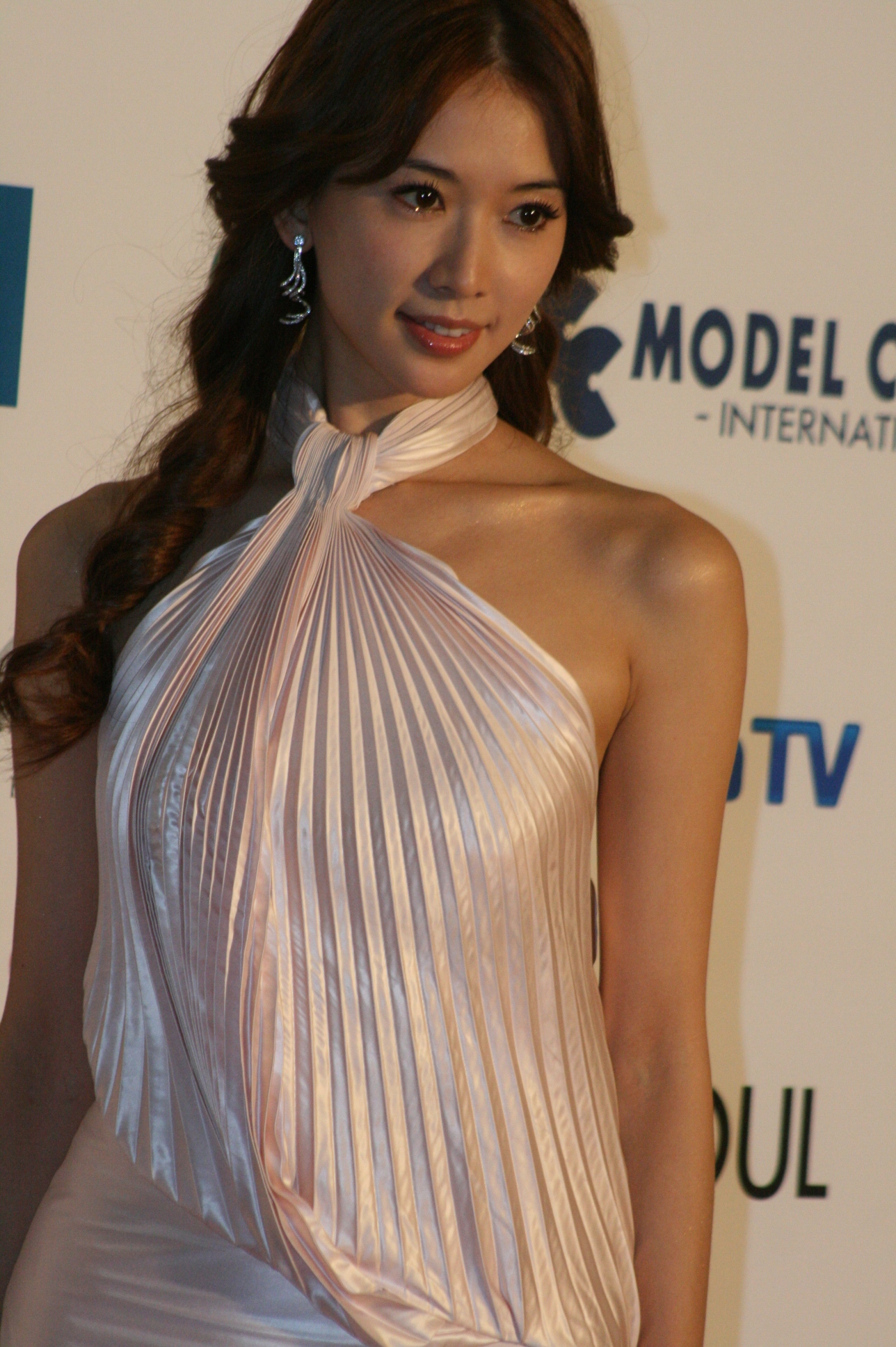 Lin Chi-ling at the 2009 Asia Model Festival Awards (AMFA), COEX Convention Hall, Seoul, South Korea.